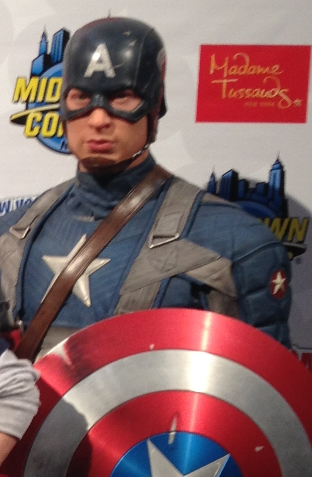 Me at NYCC